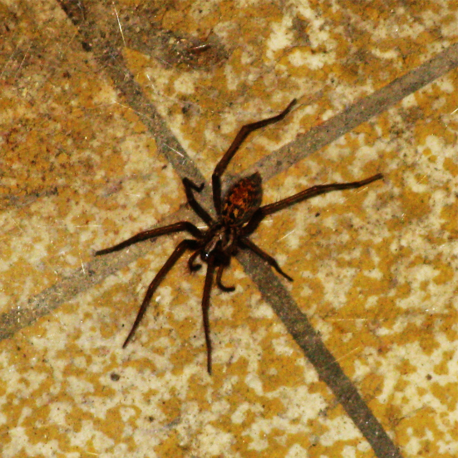 House spider with 7 legs.